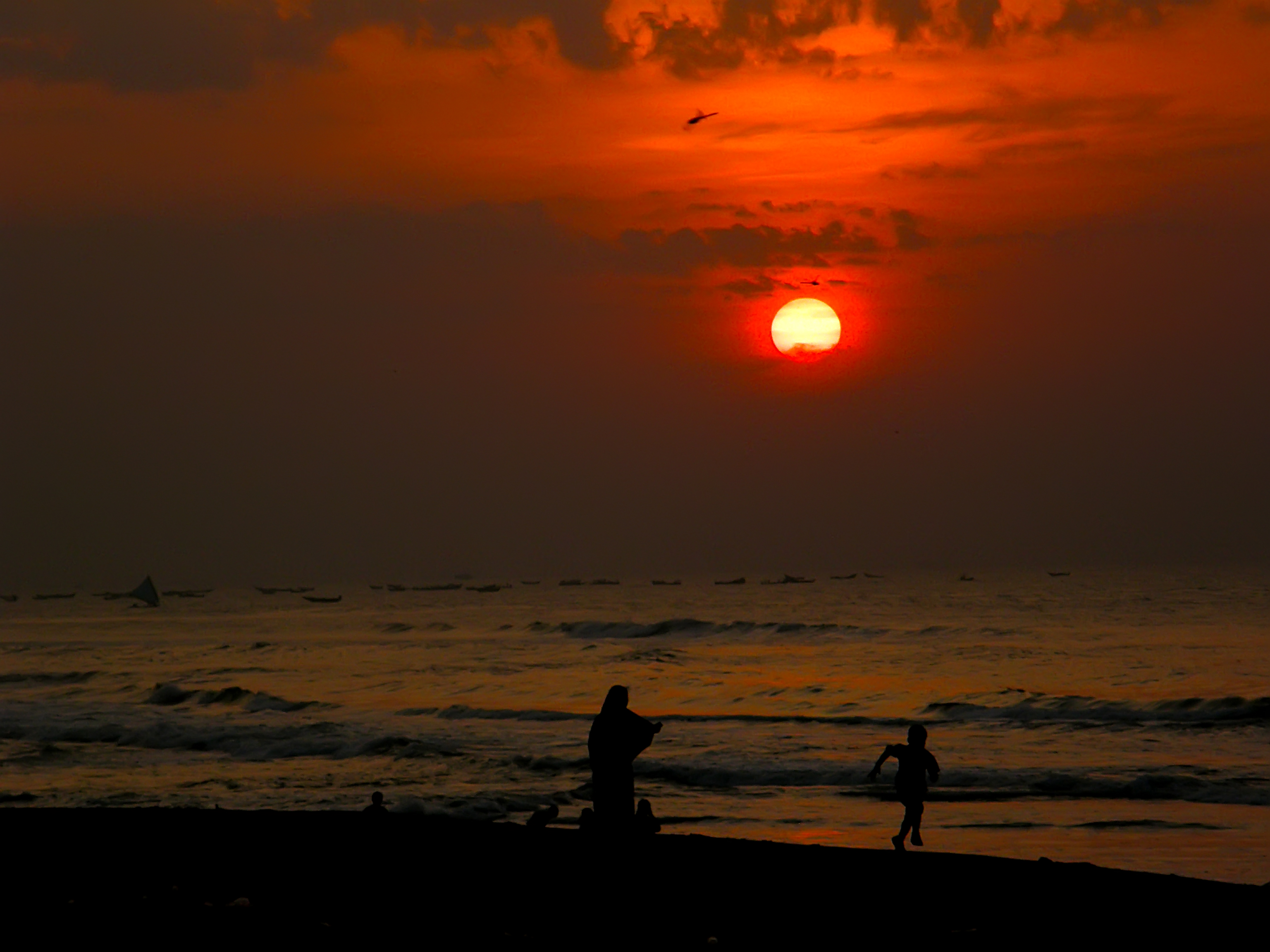 Sun Rising